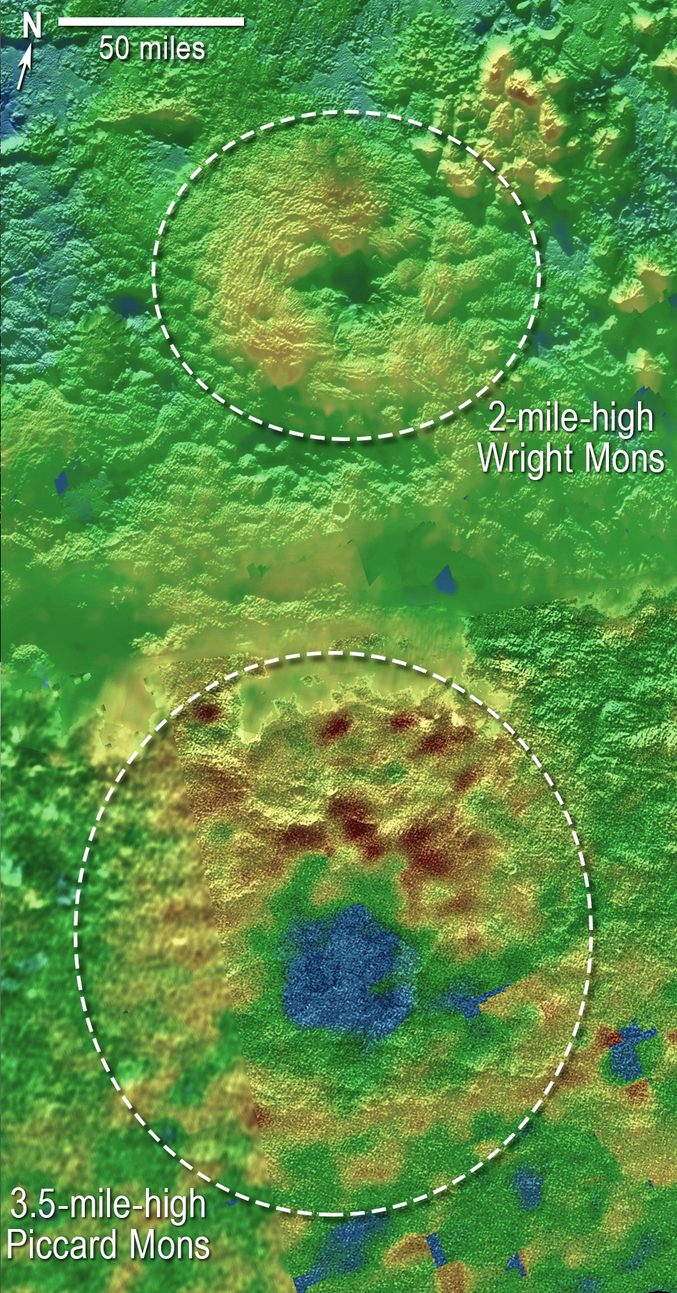 PIA20050: Ice Volcanoes and Topography (annotated version) Scientists using New Horizons images of Pluto's surface to make 3-D topographic maps have discovered that two of Pluto's mountains, informally named Wright Mons and Piccard Mons, could possibly be ice volcanoes. The color is shown to depict changes in elevation, with blue indicating lower terrain and brown showing higher elevation; green terrains are at intermediate heights. The Johns Hopkins University Applied Physics Laboratory in Laurel, Maryland, designed, built, and operates the New Horizons spacecraft, and manages the mission for NASA's Science Mission Directorate. The Southwest Research Institute, based in San Antonio, leads the science team, payload operations and encounter science planning. New Horizons is part of the New Frontiers Program managed by NASA's Marshall Space Flight Center in Huntsville, Alabama.